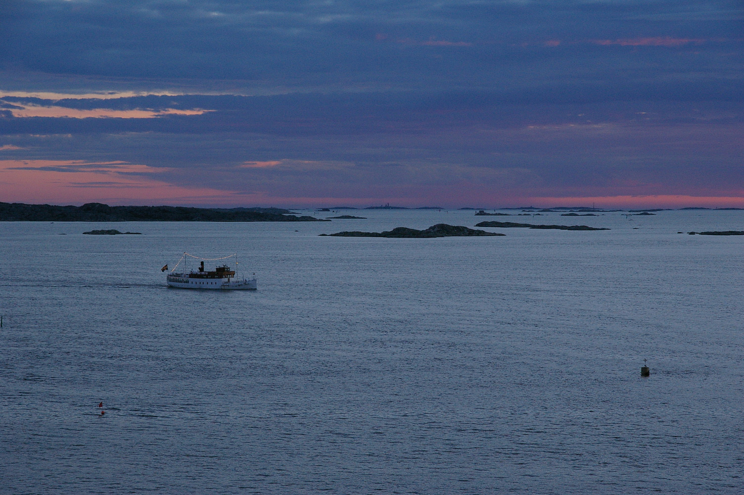 Picture from Långedrag, the lighthouse of Vinga and M/S S:t Erik (1881)